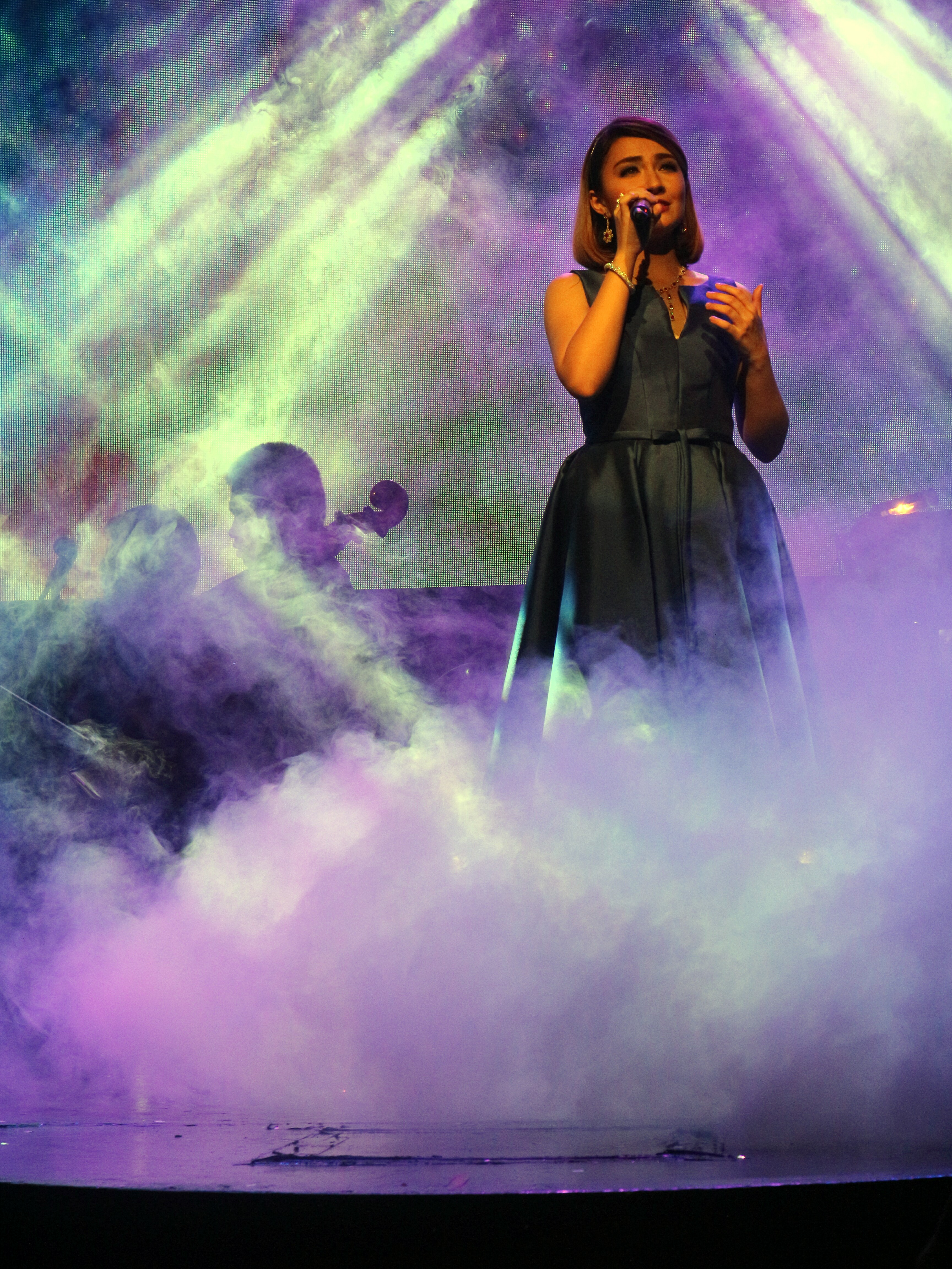 Gerphil Flores on her birthday concert. Music Museum, San Juan City, Metro Manila, Philippines. Sept 29, 2016.